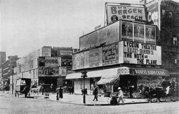 South end of Longacre Square (today called Times Square), New York City, 1898, looking northwest down 42nd Street (left) from Broadway. The right half of the picture shows the triangular island between Broadway and 7th Avenue, where One Times Square now stands, which replaced the Pabst Building, a nine-story hotel and restaurant begun in October 1898 and completed a year later.[1][2] At left, across 7th Avenue, is the future site of Hammerstein's Victoria and Roof Garden. Above the Kremonia advertising poster, left-center, is a sign advertising the property. It reads: "For sale or lease / 2 to 5 years / Daniel Seymour / Drexel Bldg. [?]" Below those words is a plan of the property, with measurements of 200 x 100, and of the plot to the west of it, which became Hammerstein's Theatre Republic. Posters advertise The Moth and the Flame, which played the Lyceum Theatre April 11 to June 18, 1898,[3][4] Way Down East (under the Kremonia poster), which played the Manhattan Theatre from February 7 to June 18, 1898,[5][6] and the Castle Square Opera Company, which played a season at the American Theatre on 42nd Street from December 25, 1897 to June 25, 1898.[7][8] ↑ The New York Times, May 7, 1903. "Steel Frames and Corrosion" ↑ Watson, Edward B. and Edmond V. Gillon, Jr. (1976). New York Then and Now Mineola, N. Y.: Courier Dover Publications. ISBN: 9780486131061, p. 21. Preview online at Google Books. ↑ The New York Times, April 12, 1898. "Dramatic and Musical. The Moth and the Flame" ↑ The New York Times, June 17, 1898. "Theatrical Gossip" ↑ The Sun (New York), February 8, 1898. "Plays New to Our Stage", p. 7, col. 1 ↑ The Sun (New York), June 15, 1898. "Theatrical Amusements", p. 7, col. 1 ↑ The New York Times, December 25, 1897. "Grand Opera in English" ↑ The New York Times, June 26, 1898. "Castle Square Opera Company"